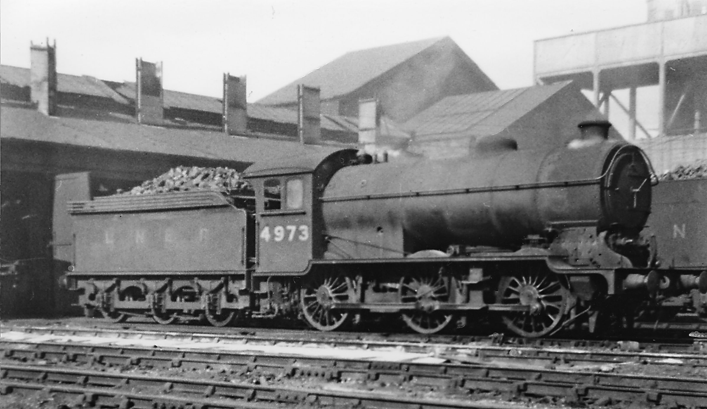 A J39 0-6-0 at Immingham Locomotive Depot. Gresley J39/3 No. 4973 (No. 3083 until 1946) was one of the youngest, being built in 2/41: seen here before Nationalisatiion, it survived as BR No. 64973 only until 11/59.